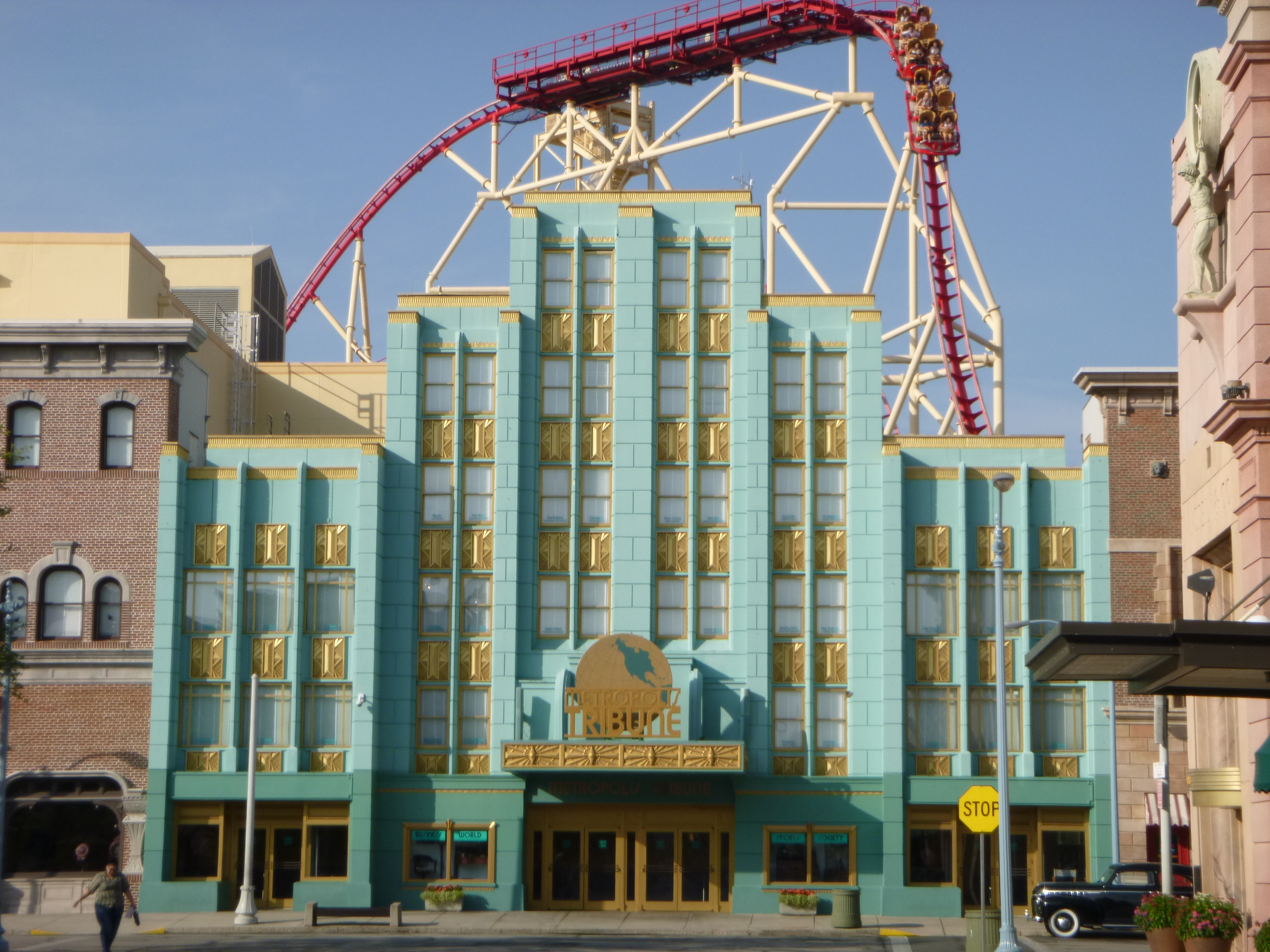 Metropolis Tribune in New York themed area